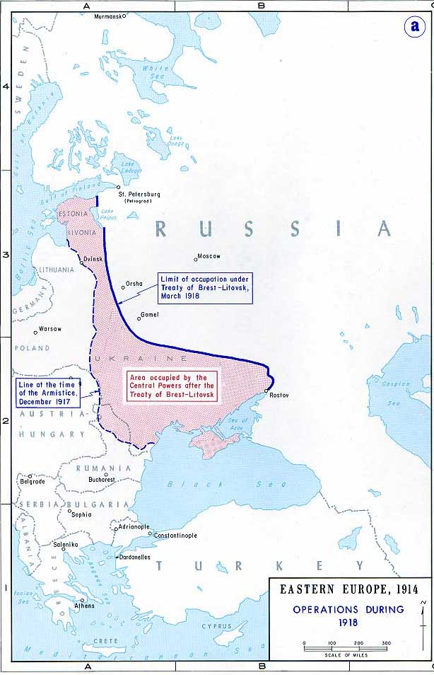 Taken from the campaign series, made public by the US-Army under The picture is public domain. Map showing the territorial results of the armistice between Bolshevist Russia and the Central Powers.